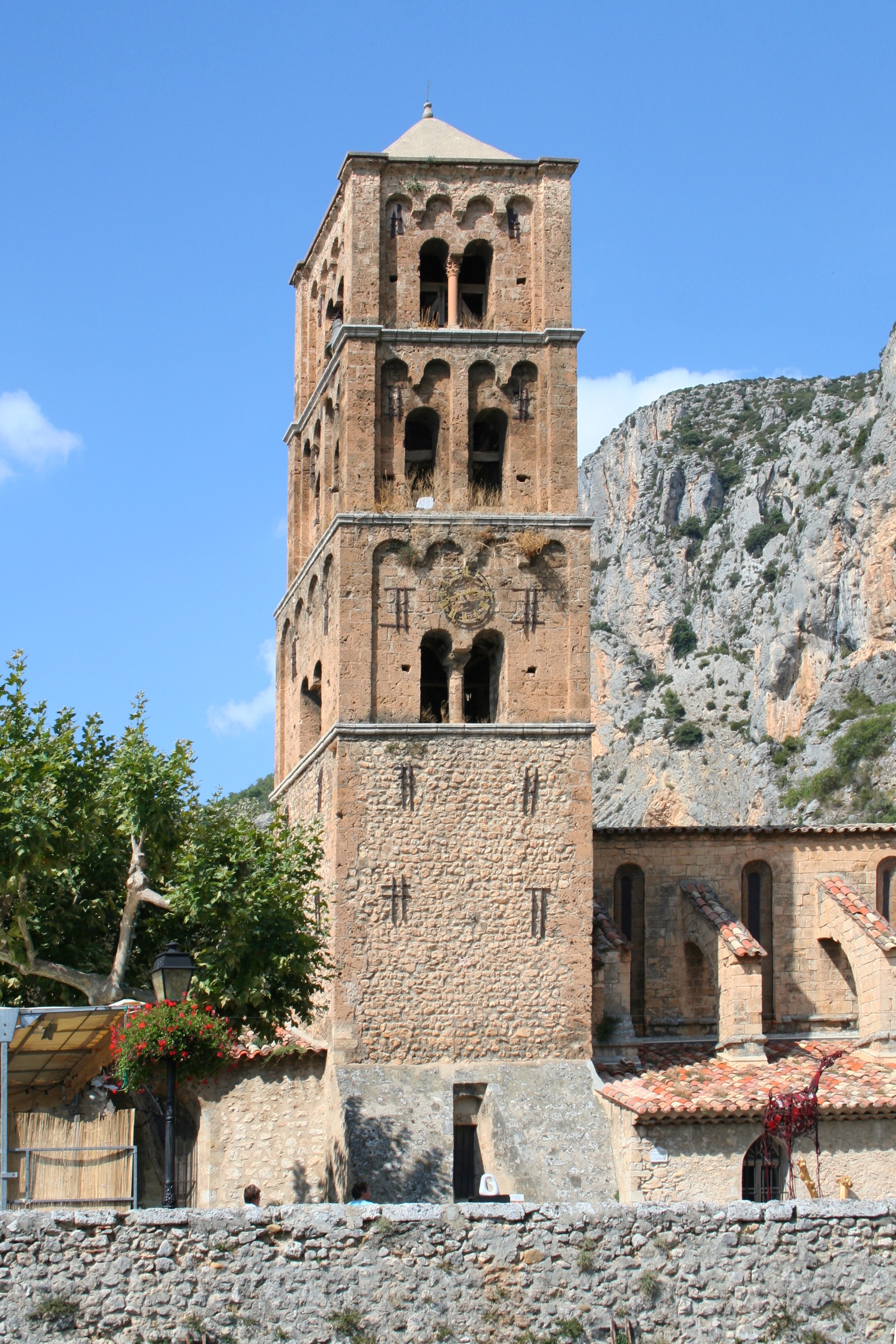 Moustiers-Sainte-Marie - Belfry